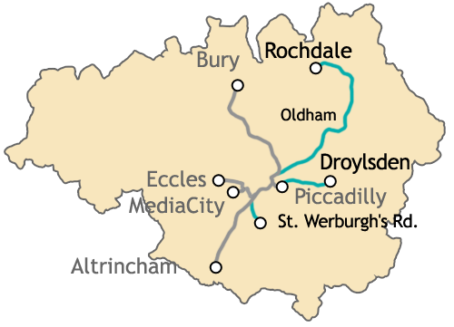 Outline of the route of the phase 3a extension of Manchester Metrolink to Eccles, Droylsden and Chorlton